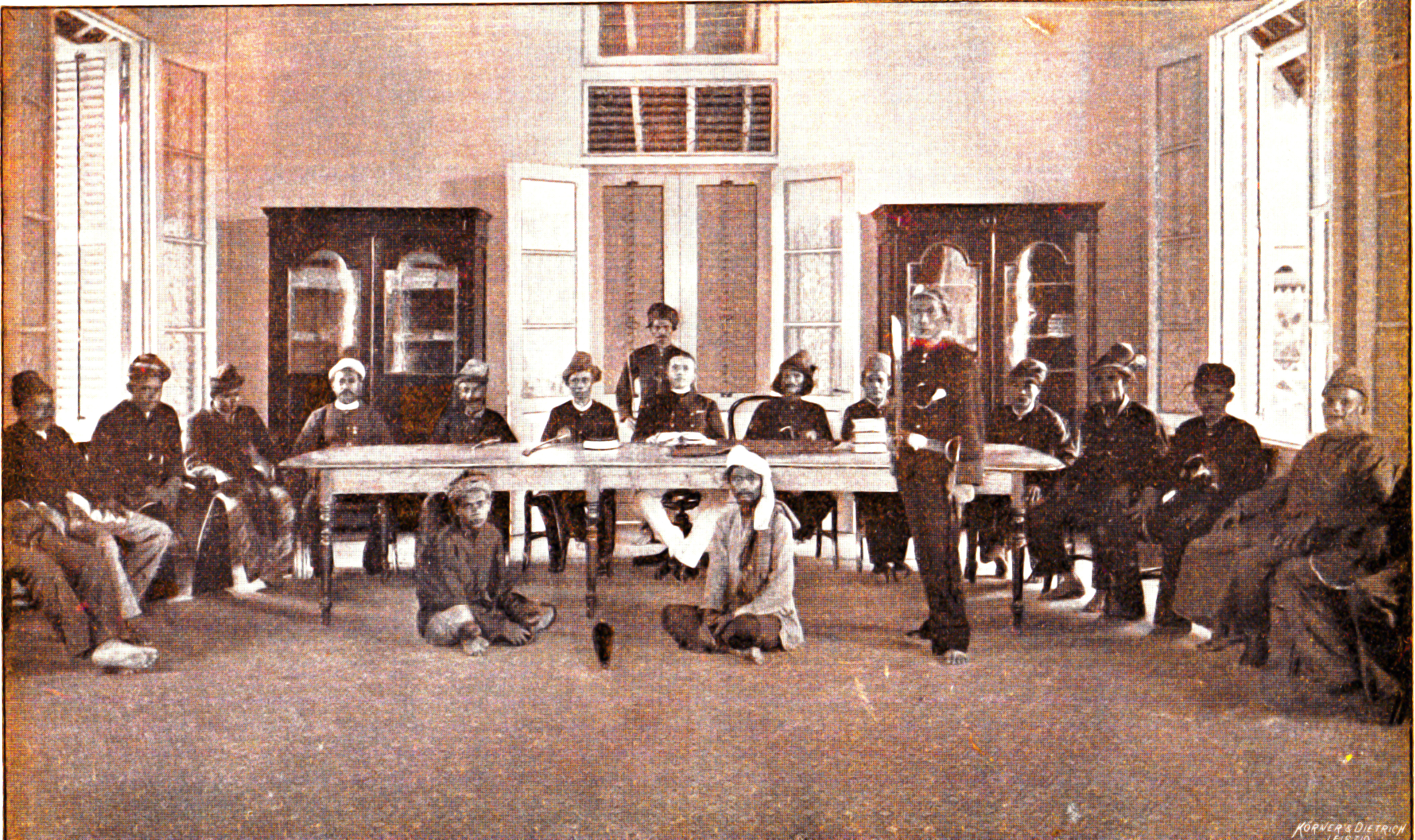 Rechtzaak te Kota Radja